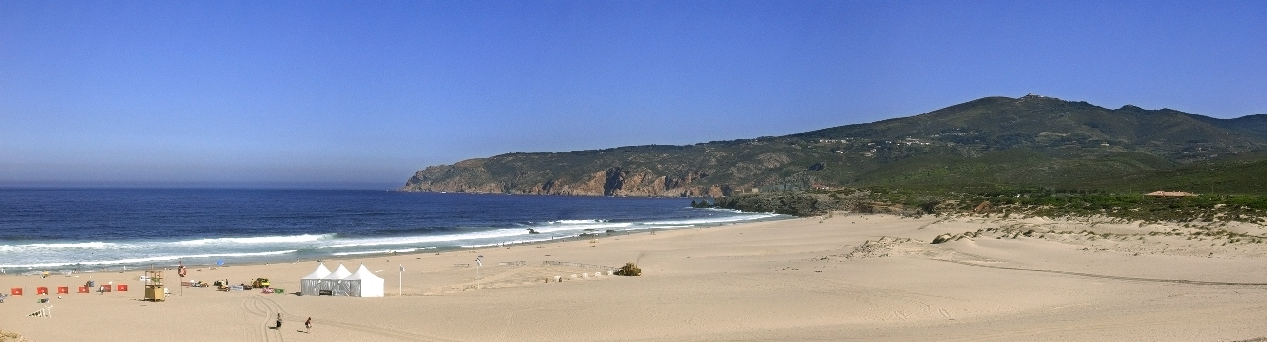 Guincho, famous beach in Portugal